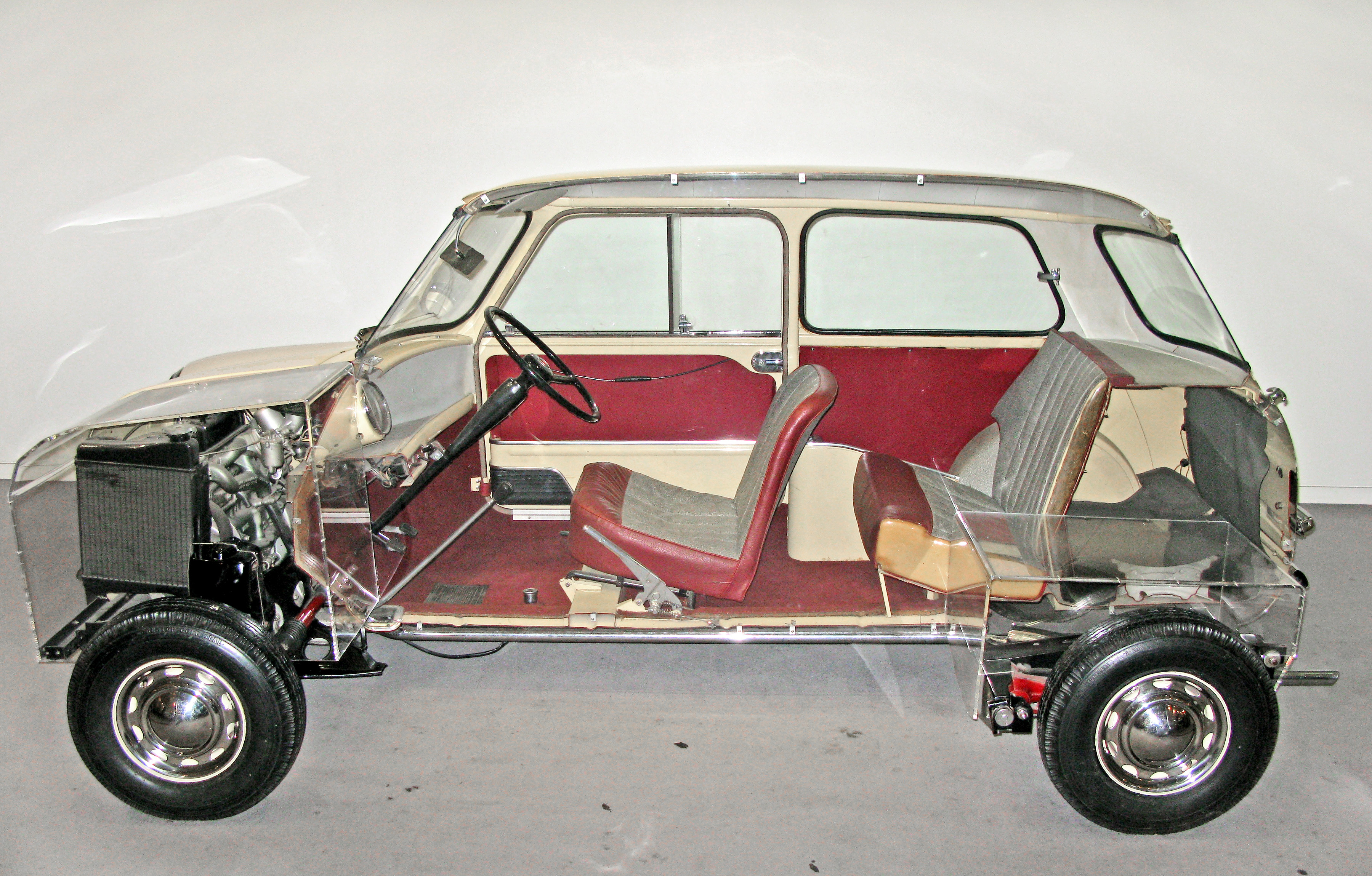 Photo of a mini that has had large parts of it removed to allow a cross section to be viewed. On display at the Science Museum in London.